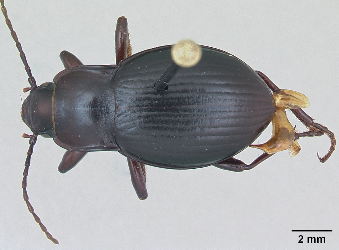 Dorsal view of Metrius contractus specimen casent0103333.